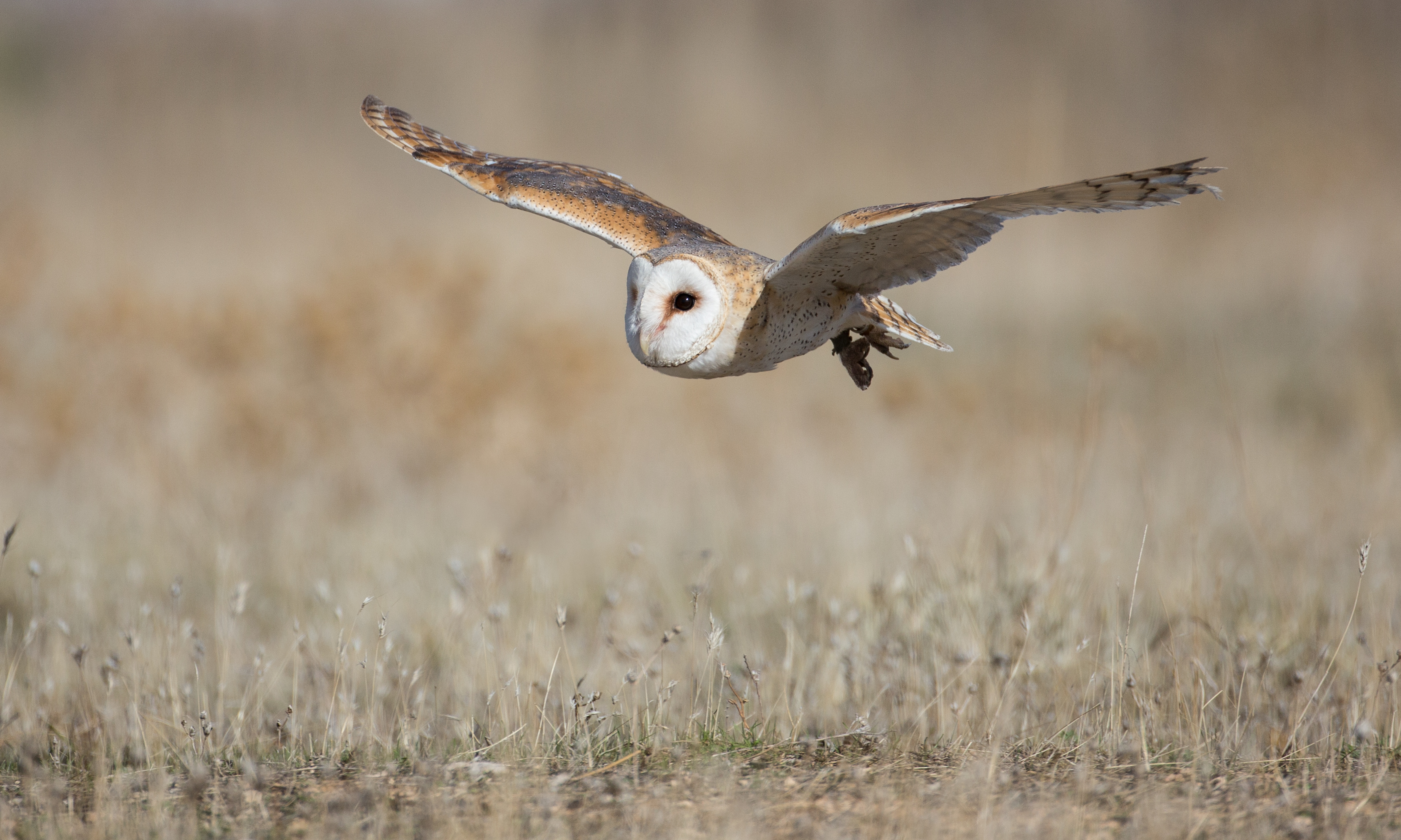 A barn owl (Tyto alba) during a flight exhibition.